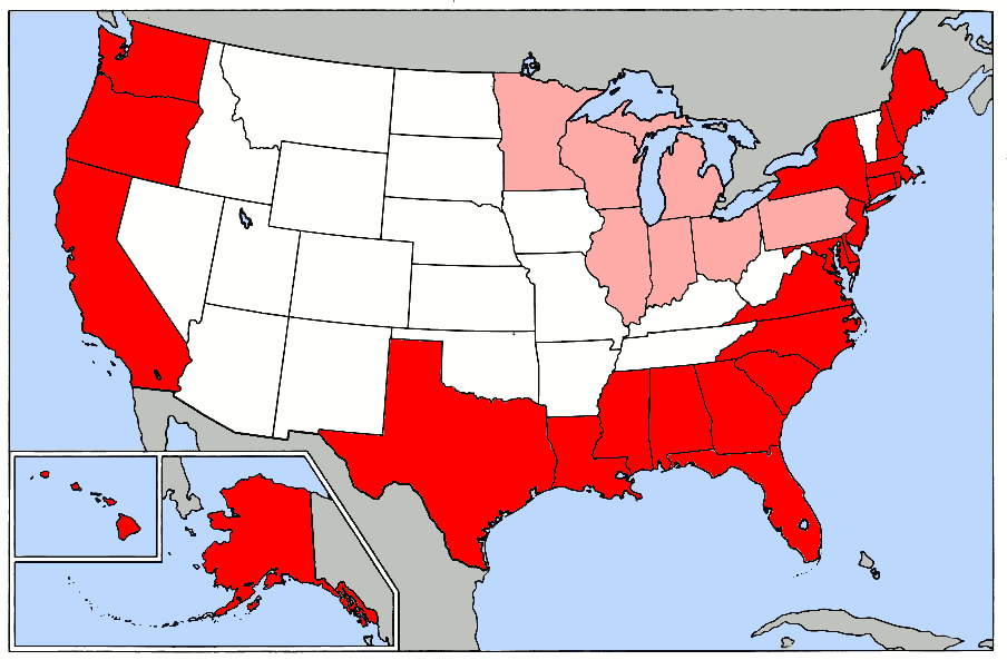 Made from Image:Map of USA.png, using now-standard colors.